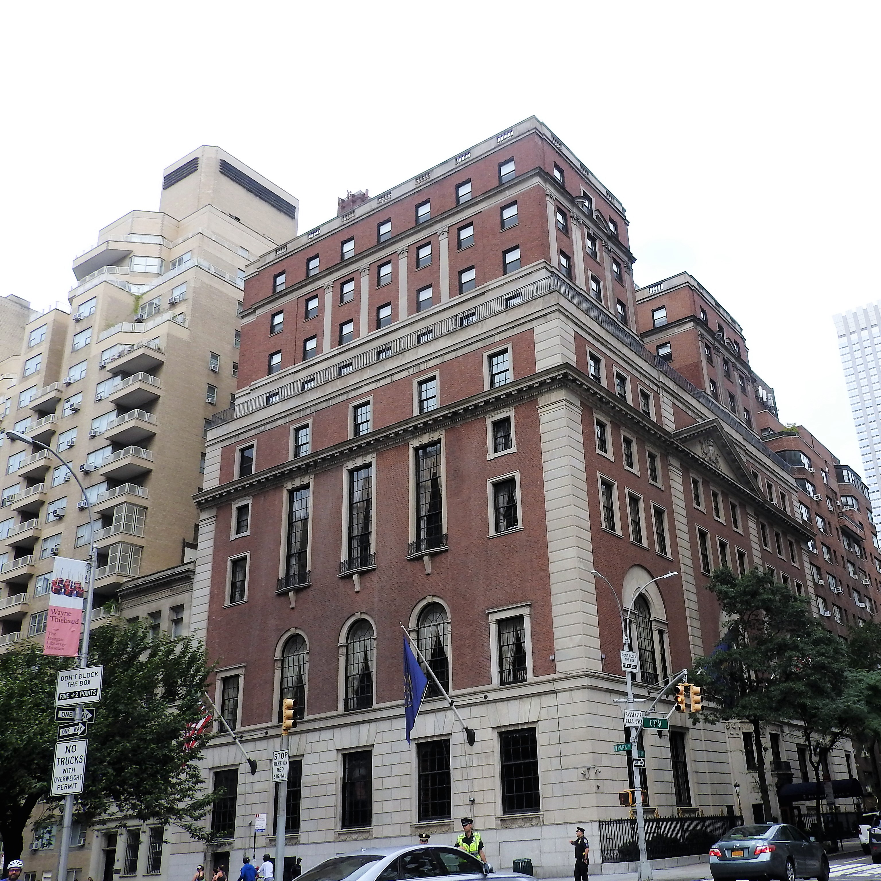 Looking west at clubhouse